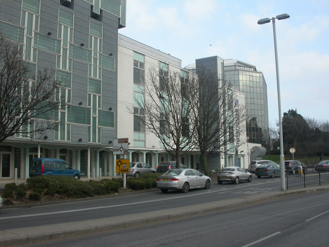 Poole, the Lighthouse Arts centre, offering theatre, music, film & dance; calls itself "the largest arts centre outside London."